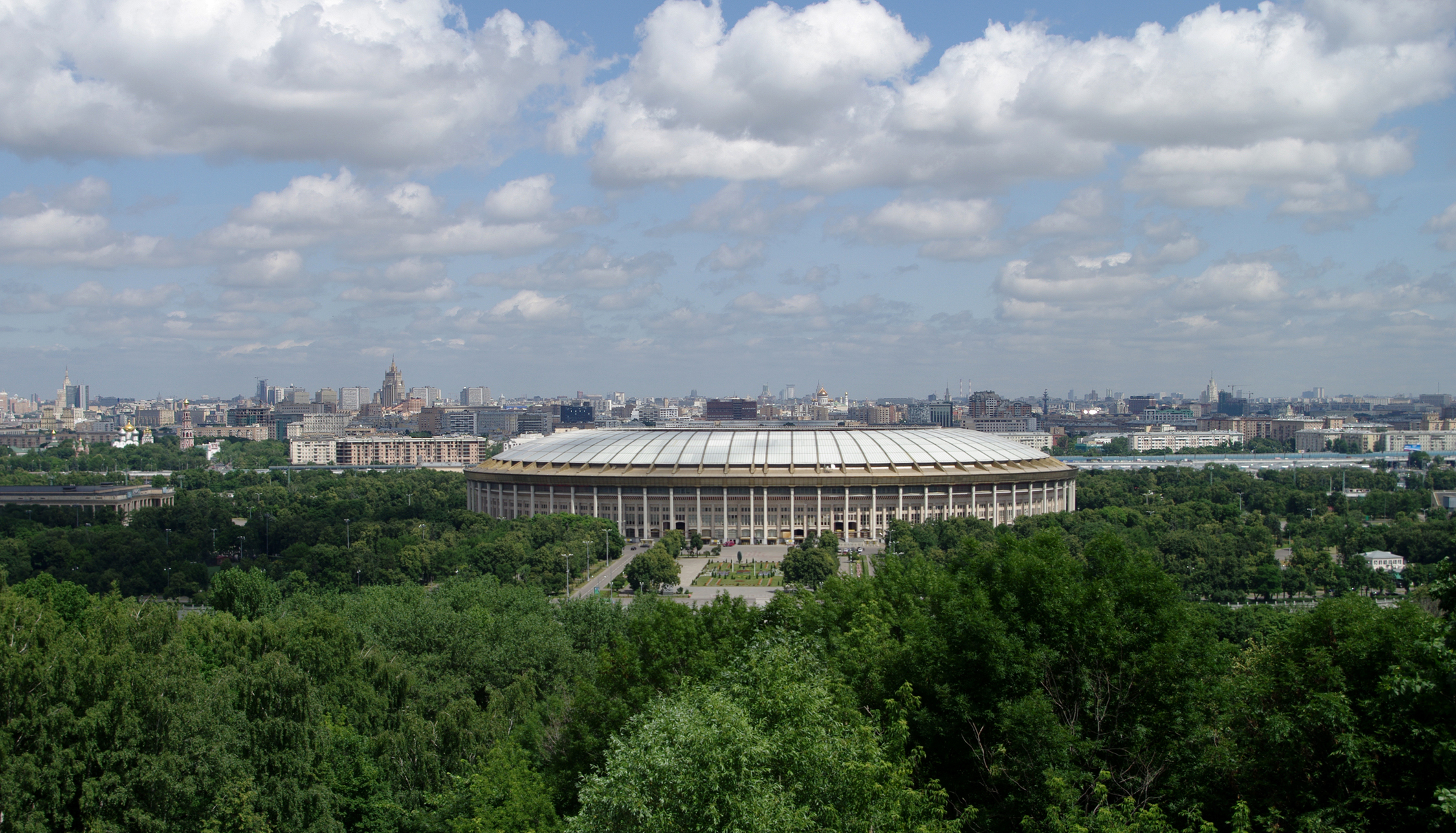 A view of Luzhniki Stadium from Vorobyevy Gory in Moscow, Russia.